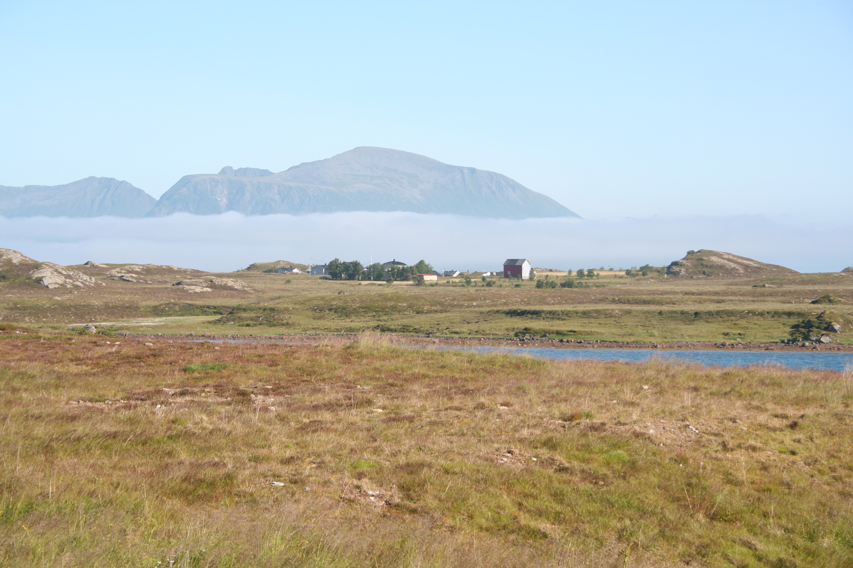 Gisløya island in Norway. This picture was taken by me on 31 July 2006.